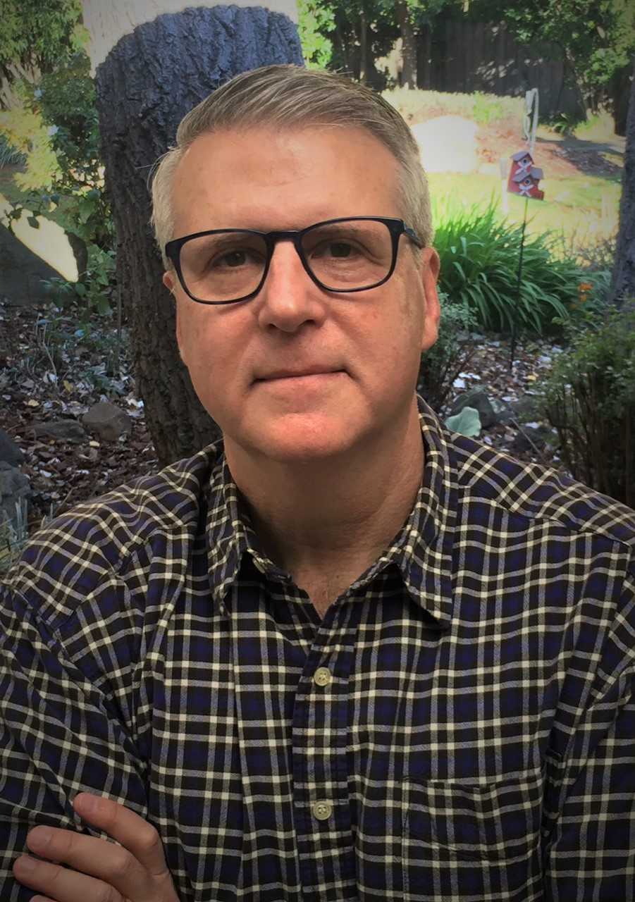 Photo of Peter Robinson in summer of 2019